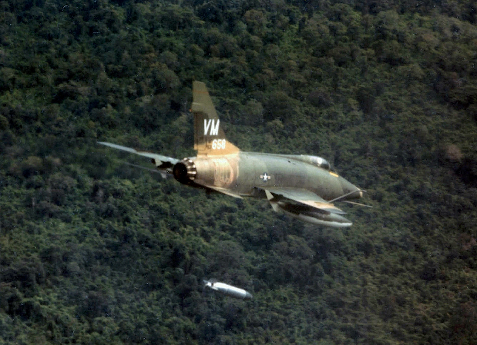 Three U.S. Air Force North American F-100D-25-NA Super Sabre (s/n 55-3658) of the 352nd Tactical Fighter Squadron, 35th Tactical Fighter Wing dropping a napalm bomb near Bien Hoa, South Vietnam.